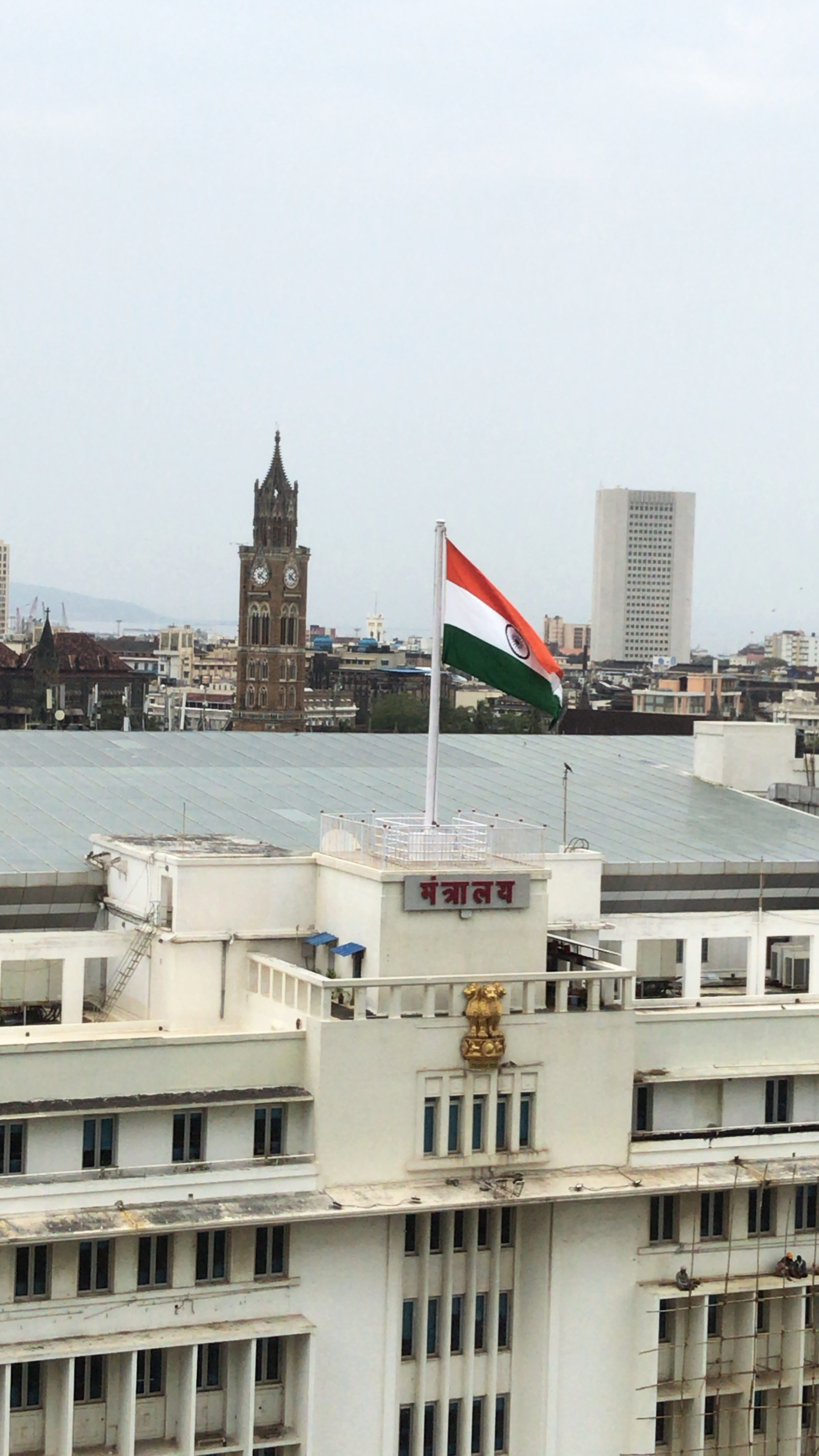 Mantralaya is the administrative headquarters of the state government of Maharashtra in South Mumbai, built in 1955. Mantralaya is a seven storeyed building which houses most of the departments of the state government of Maharashtra in this building. The Chief Minister and Deputy Chief Minister sit on the sixth floor. The Chief Secretary, sits on the fifth floor.